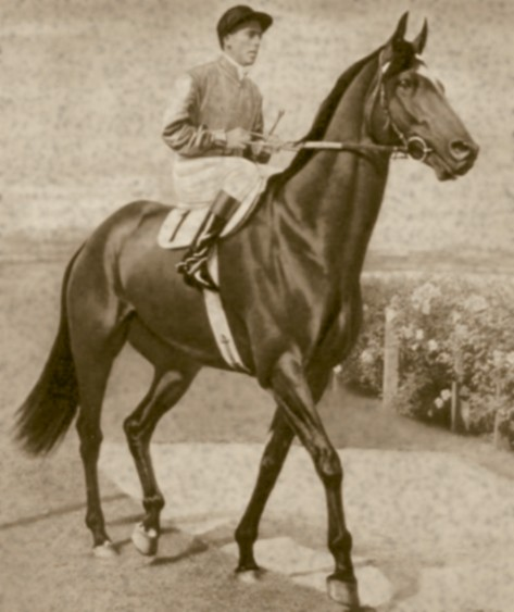 Bernborough (AUS) (1), one of Australia's greatest racehorses. An unbeaten sequence of 15 wins included victories in the 1946 Newmarket Handicap (carrying 63 kgs) and the 1946 Doomben Cup (68.5 kgs). 36: 26 wins, 3 place.